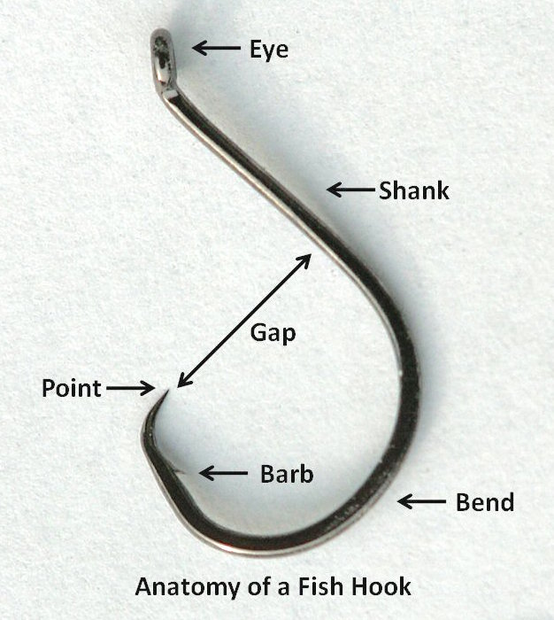 Anatomy of a Fishhook - Derived from Image:FishHooks.JPG and modified in Powerpoint.